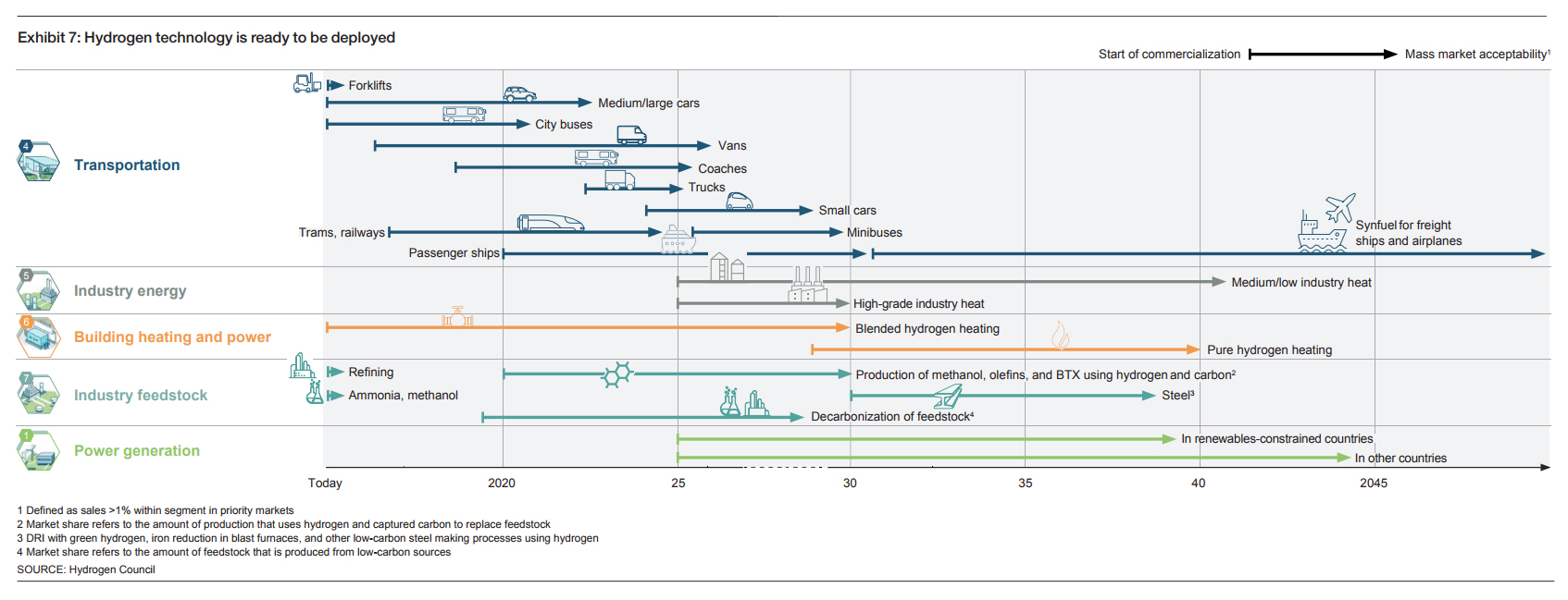 Timeline of hydrogen technologies: Timeline of future development of hydrogen technologies as a key enabler of the energy transition. Key technologies enabling zero- and low-carbon transportation, industry energy, building heat and power, industry feedstock and power generation are all presented